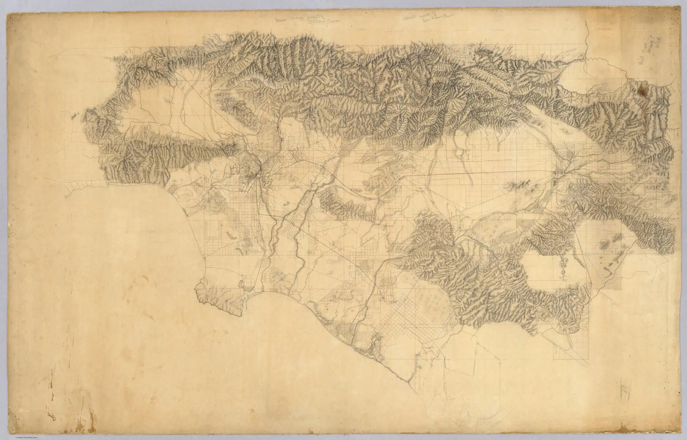 Los Angeles Basin